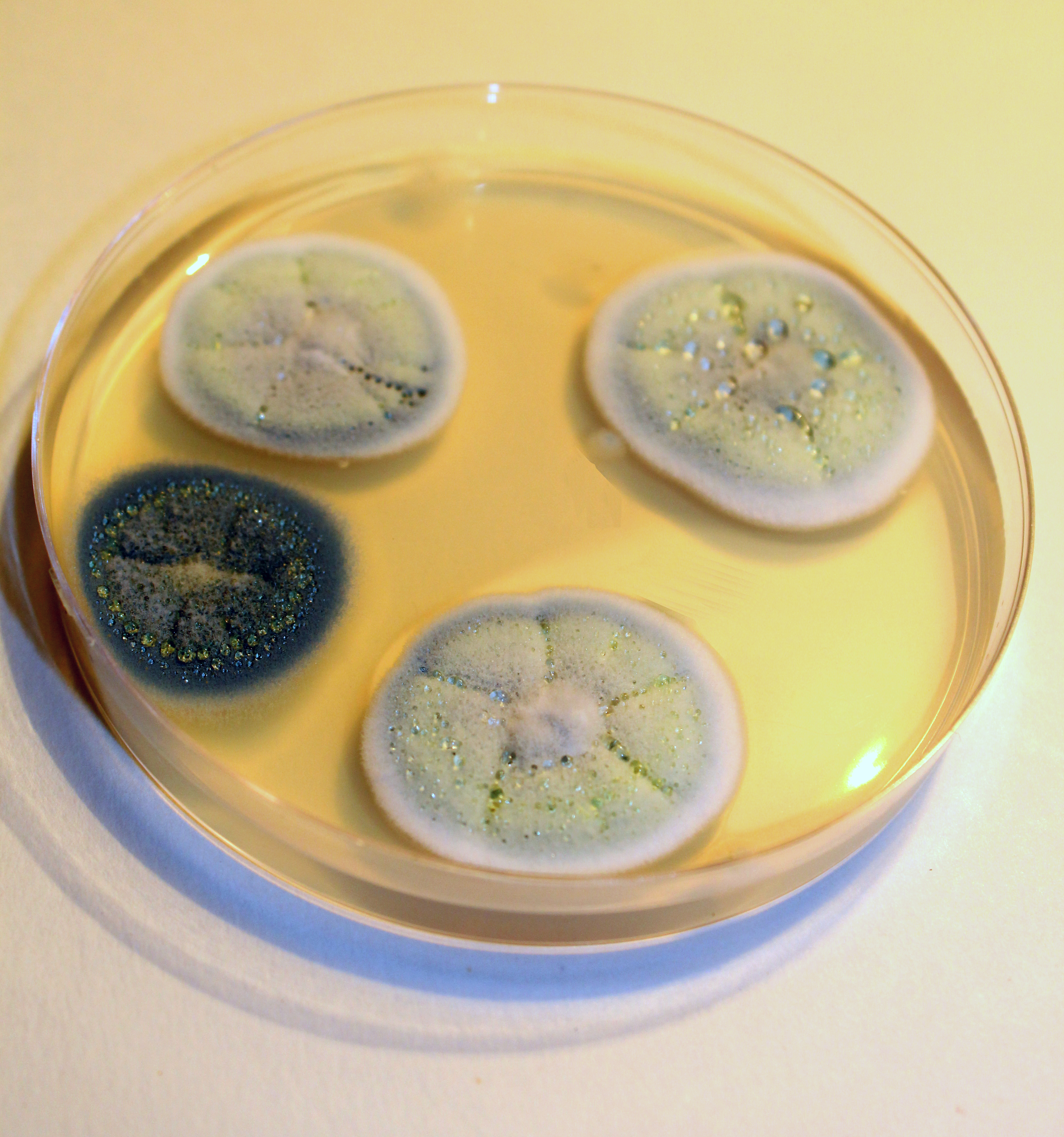 Penicillium commune and Penicillium chrysogenum